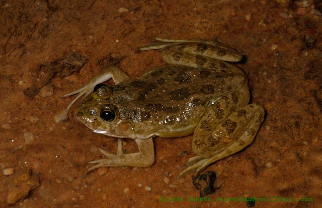 Euphlyctis cyanophlyctus female, Bannerghatta, India